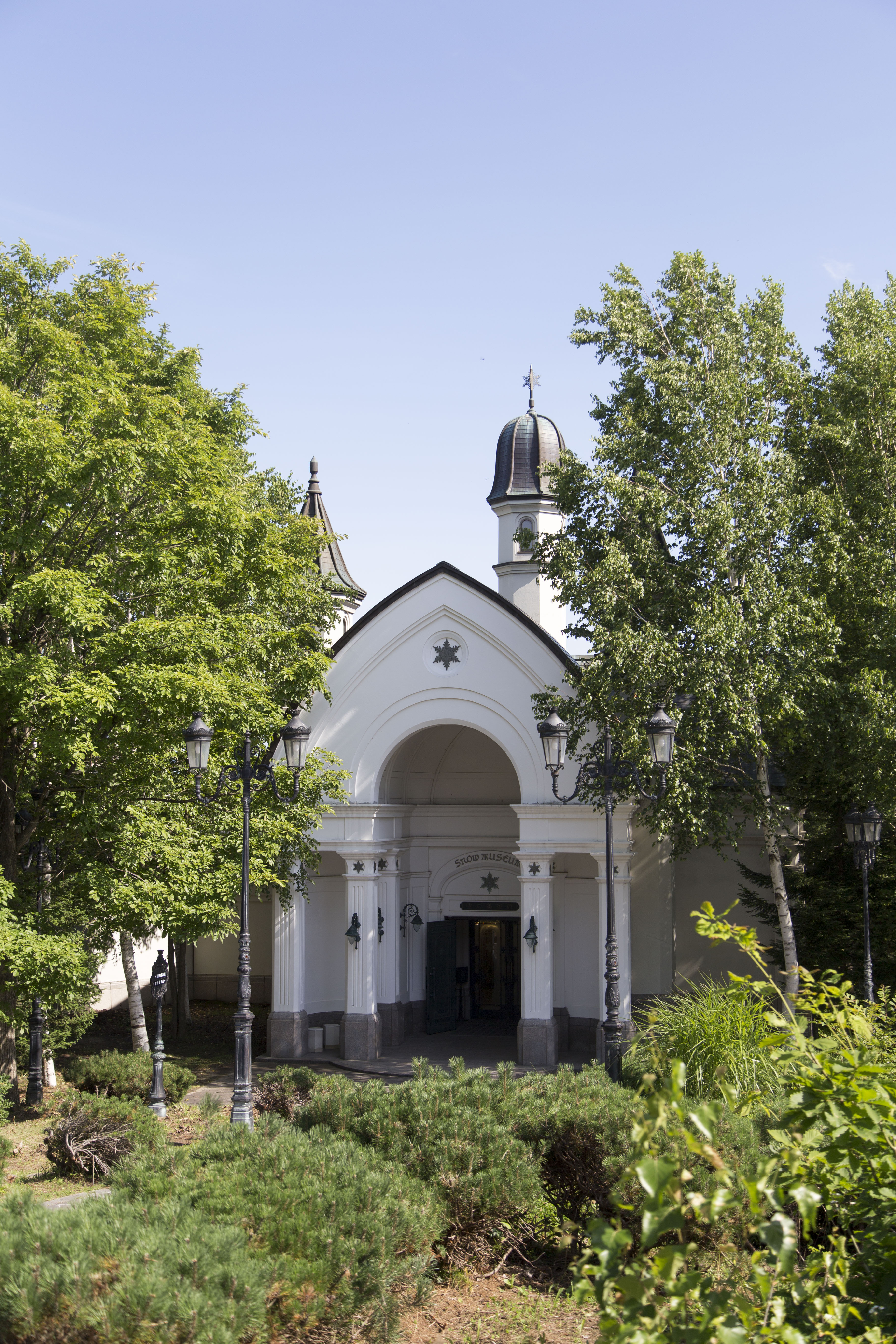 Snow Crystals Museum, Asahikawa, Japan